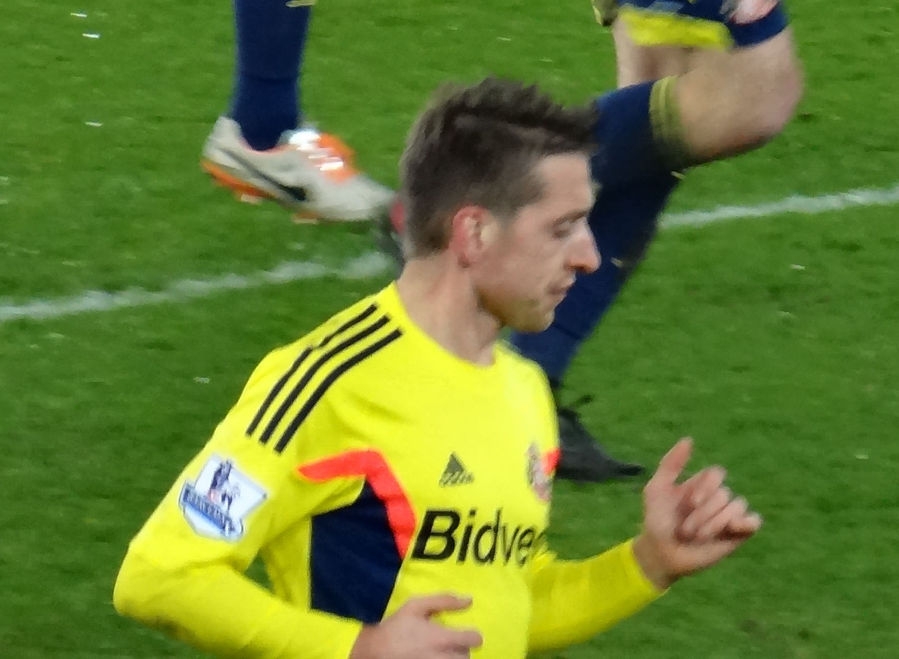 Cardiff v Sunderland, 2013, Emanuele Giaccherini.